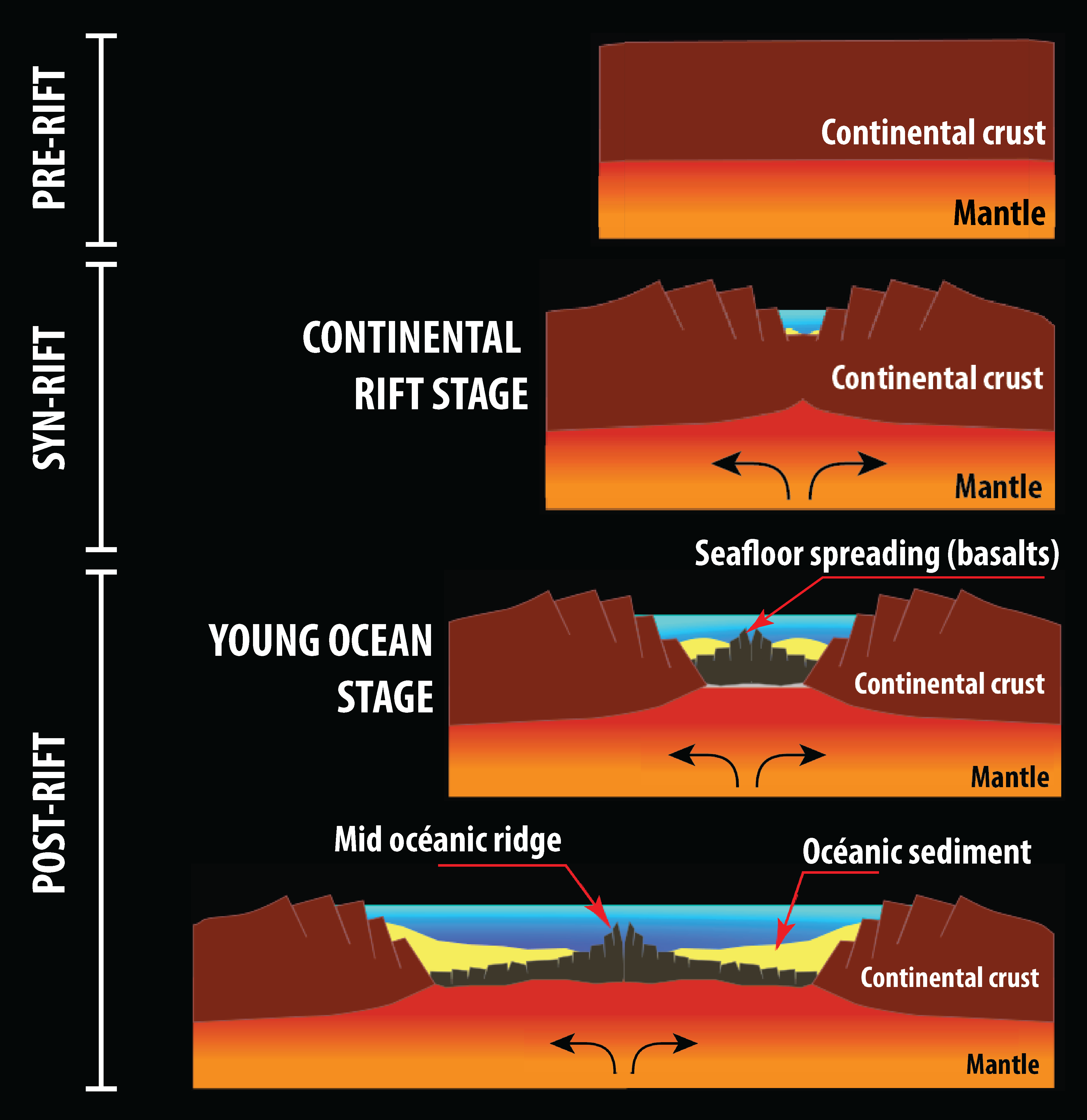 Descrption of the oceanisation process through rifting